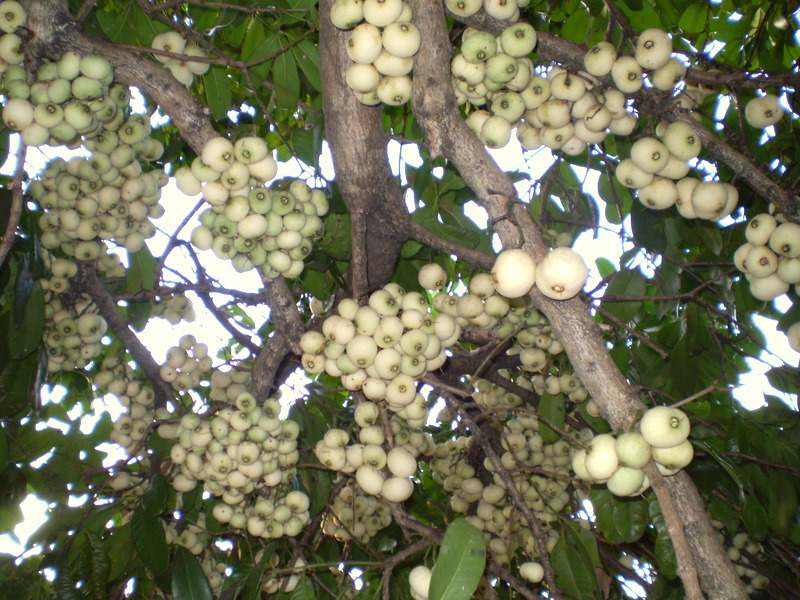 Syzygium moorei, 'coolamon tree', fruit.